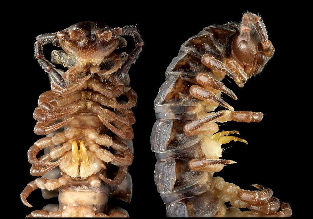 Nipponesmus shirinensis Chamberlin & Wang, 1953 (Diplopoda, Polydesmida, Polydesmidae), male from Tengjhih, Taiwan. Ventral and lateral views.